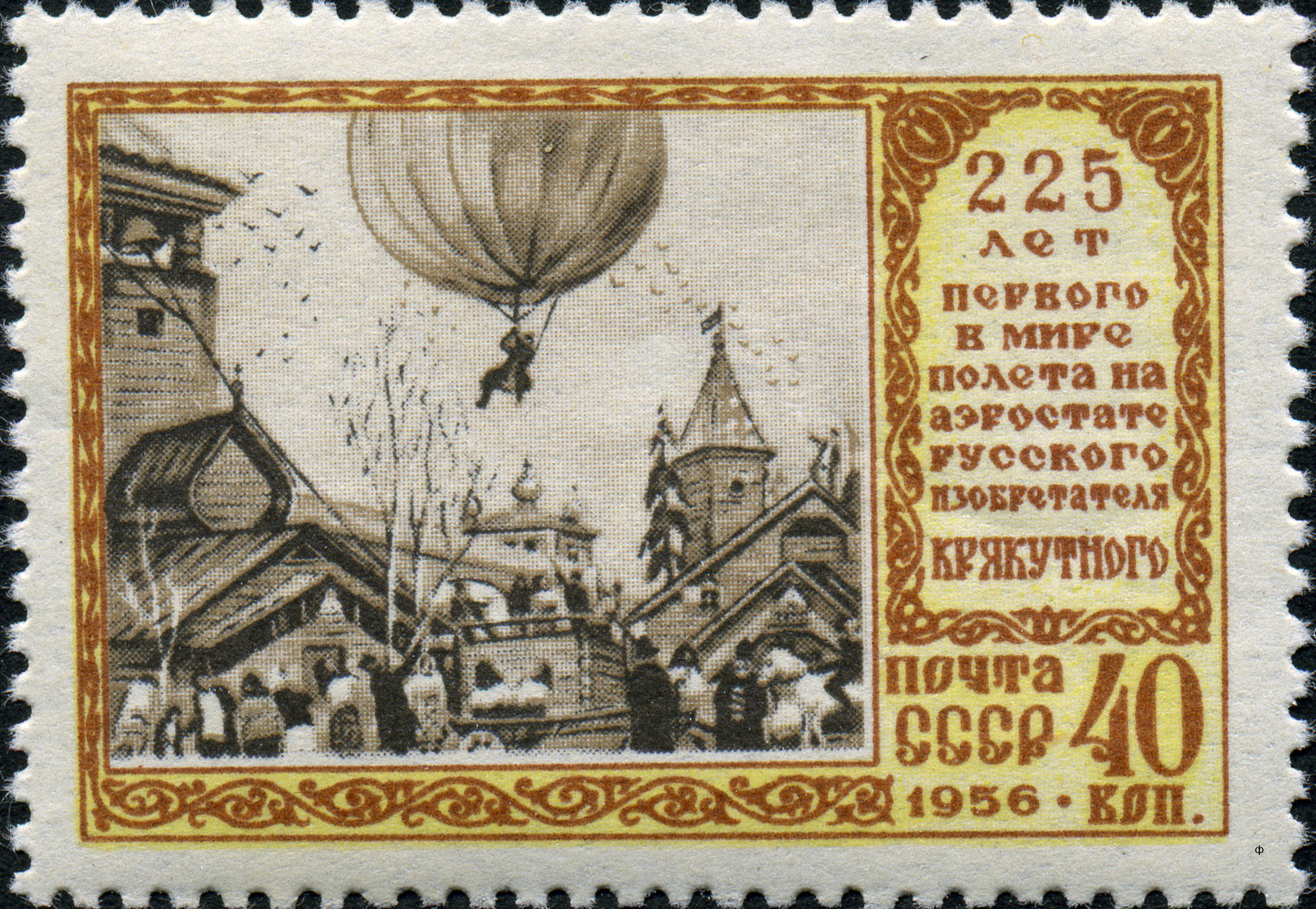 225th anniversary of the world's first hot air balloon flight by Russian inventor Kriakutny. Soviet post stamp. The historical veracity of the flight is highly disputed.